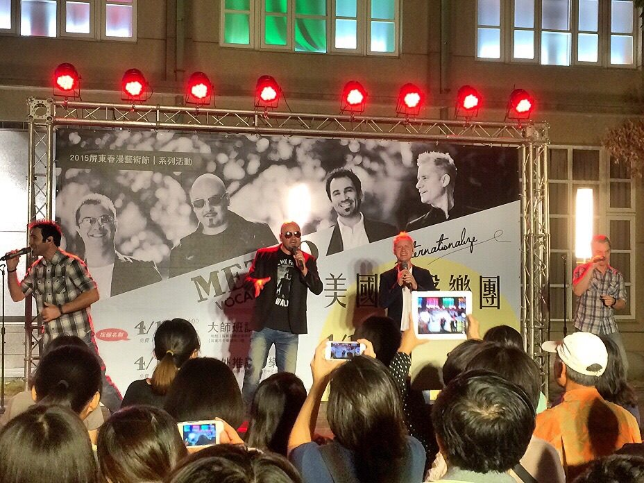 Metro Vocal Group performing in Pingtung, Taiwan, April 2015.